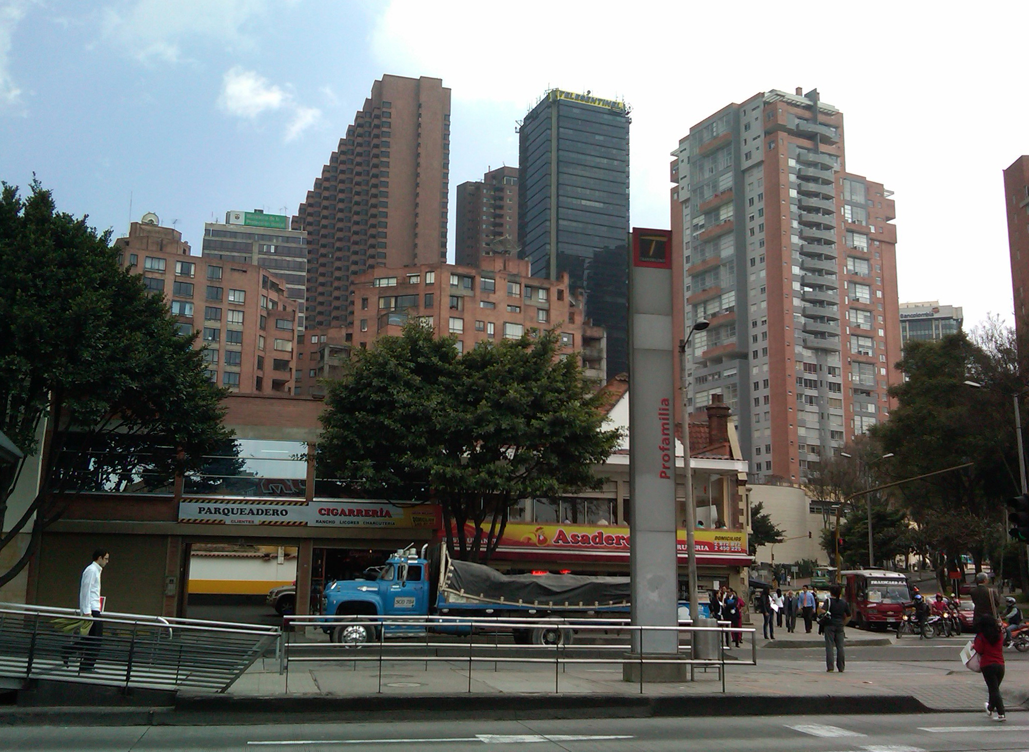 The Profamilia station of the TransMilenio en Bogotá. Also visible are the Edificio Baviera, Ministry of Social Protection, Ciudadela San Martín, Edificio Fenix Telesentinel, Torres Altavista, and Bancolombia.